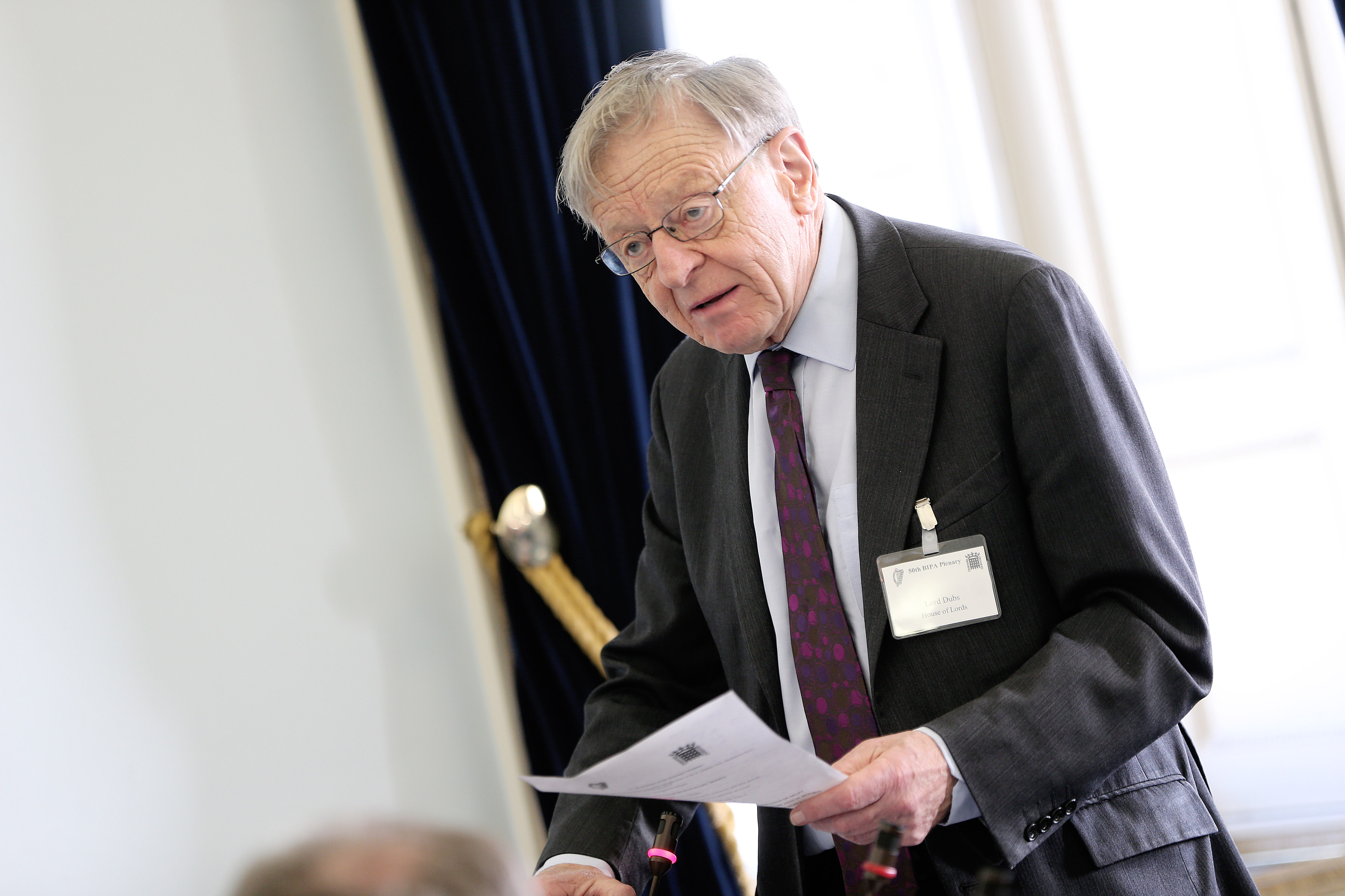 Lord Alf Dubs addressing the 50th Plenary session ,marking 25 years of the British Irish Assembly in the Seanad Chamber in the Dail today on the subject of the Irish in Scotland. PIC: NO FEE, JULIEN BEHAL/ MAXWELLS.